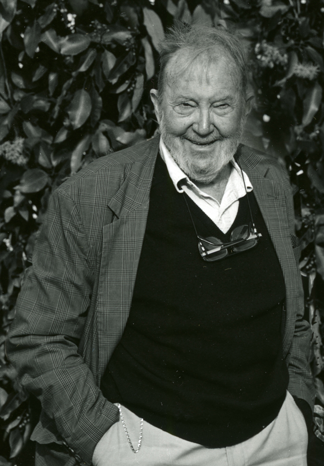 Morley Baer in one of his photographic workshops, Cambria, California, 1963